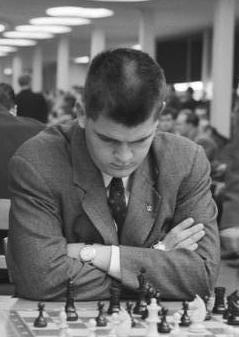 Germany Zentralbild/Kohls/Leske 29.10.1960 Leipzig: XIV. Schacholympiade 1960 Im Ringmessehaus in Leipzig wird vom 16.10. bis 9.11.1960 die XIV. Schacholympiade ausgetragen. Am 28.10. begannen die Finalturniere. UBZ Fischer (USA) beobachtet das Spiel von Lombardy (USA) gegen Radovici (Rumänien). 76 052/53N United States of America United States of America Central image / Kohls / Leske Nov. 1, 1960 w:14th Chess Olympiad, 1960 in Leipzig In the tournament in Leipzig took place between October 26(16?) and November 9, 1960. On Oct. 28, 1960 the final round began. Shown here: Fischer (USA) watches the game of Lombardy (USA) v Radovici (Romania).